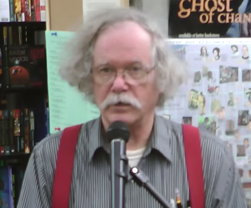 Ed Sanders answering questions at a reading of his book 'Fug You' at St Marks Bookshop NYC on May 28 2012.